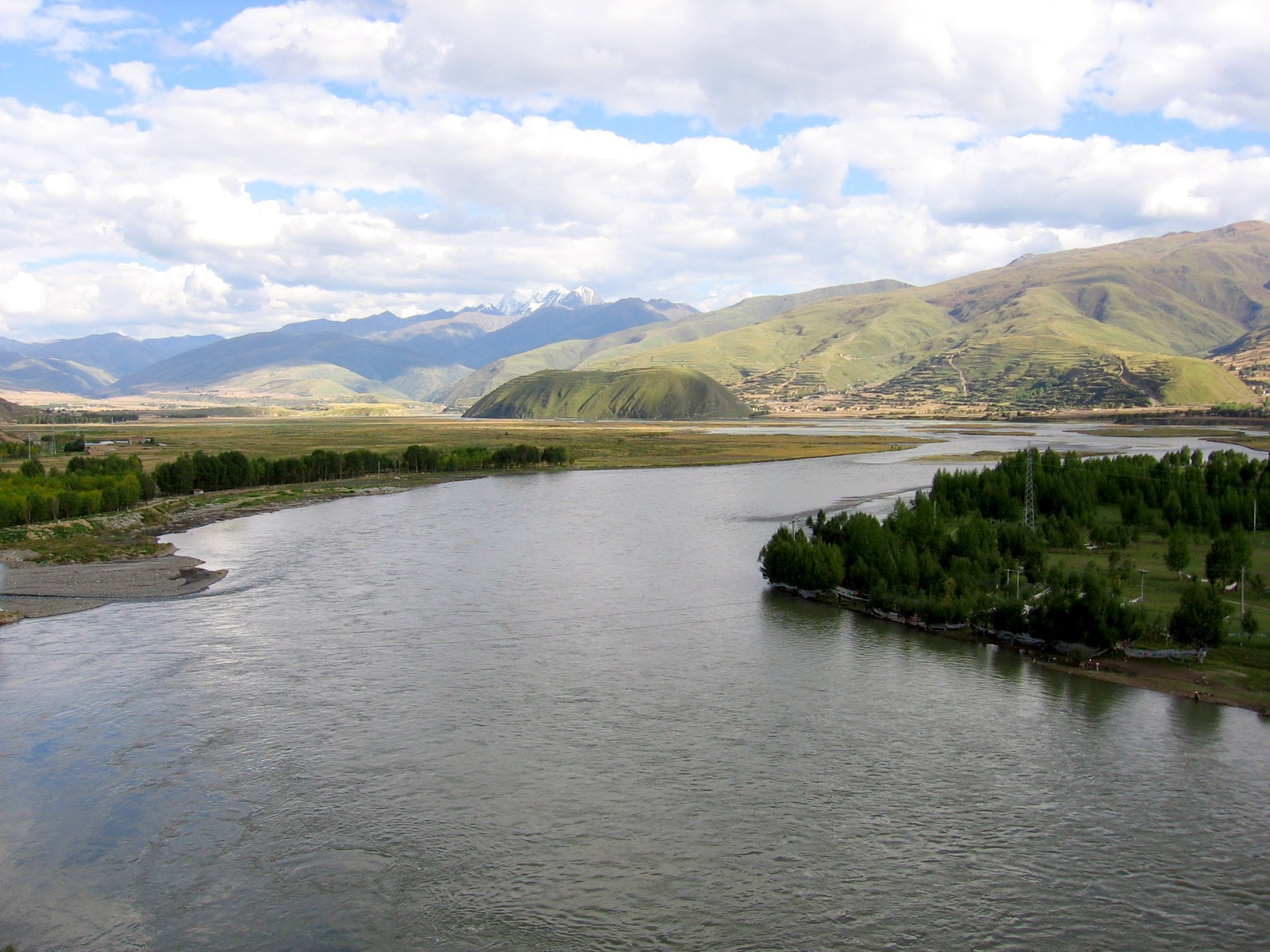 Ganzi (Garze) is a town in Garzê Tibetan Autonomous Prefecture in western Sichuan Province, China. It is an ethnic Tibetan township located in the historical Tibetan region of Kham.